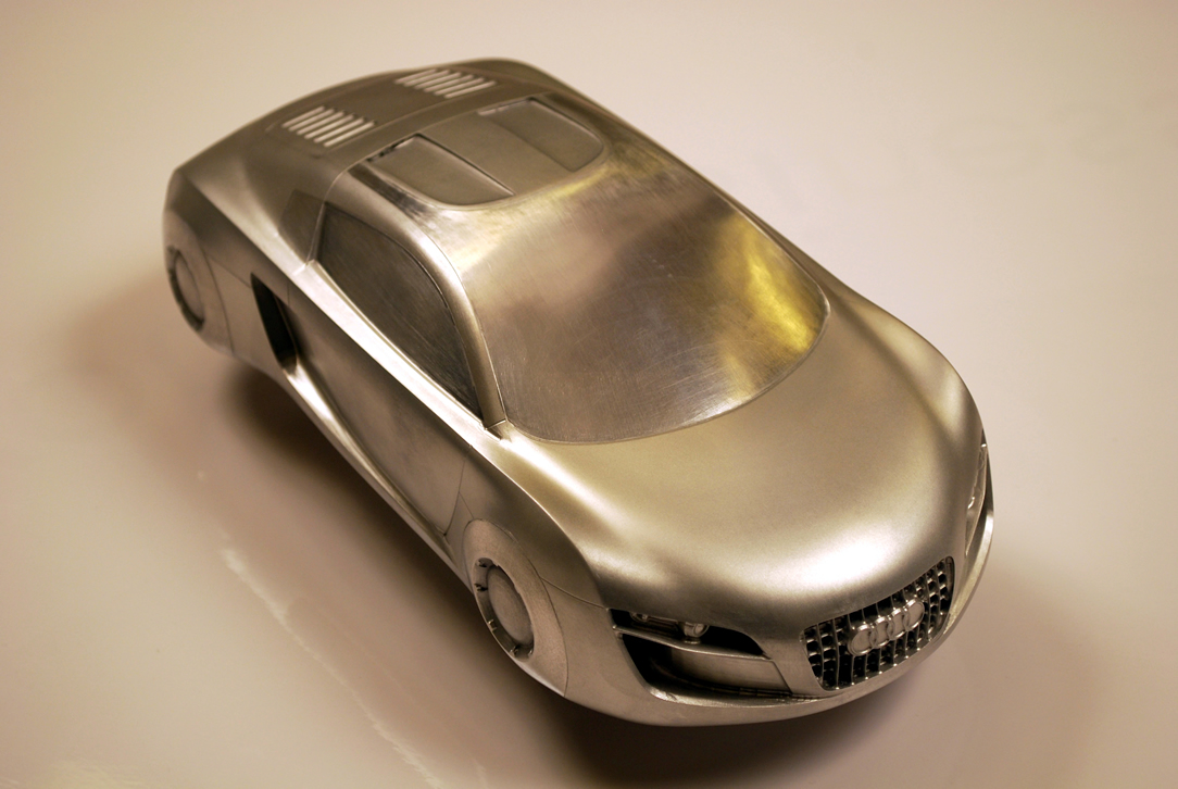 Audi concept car, made of aluminium, machined using WorkNC CAM software from Sescoi, and a Mikron HSM600U machine. (Audi R8 models)